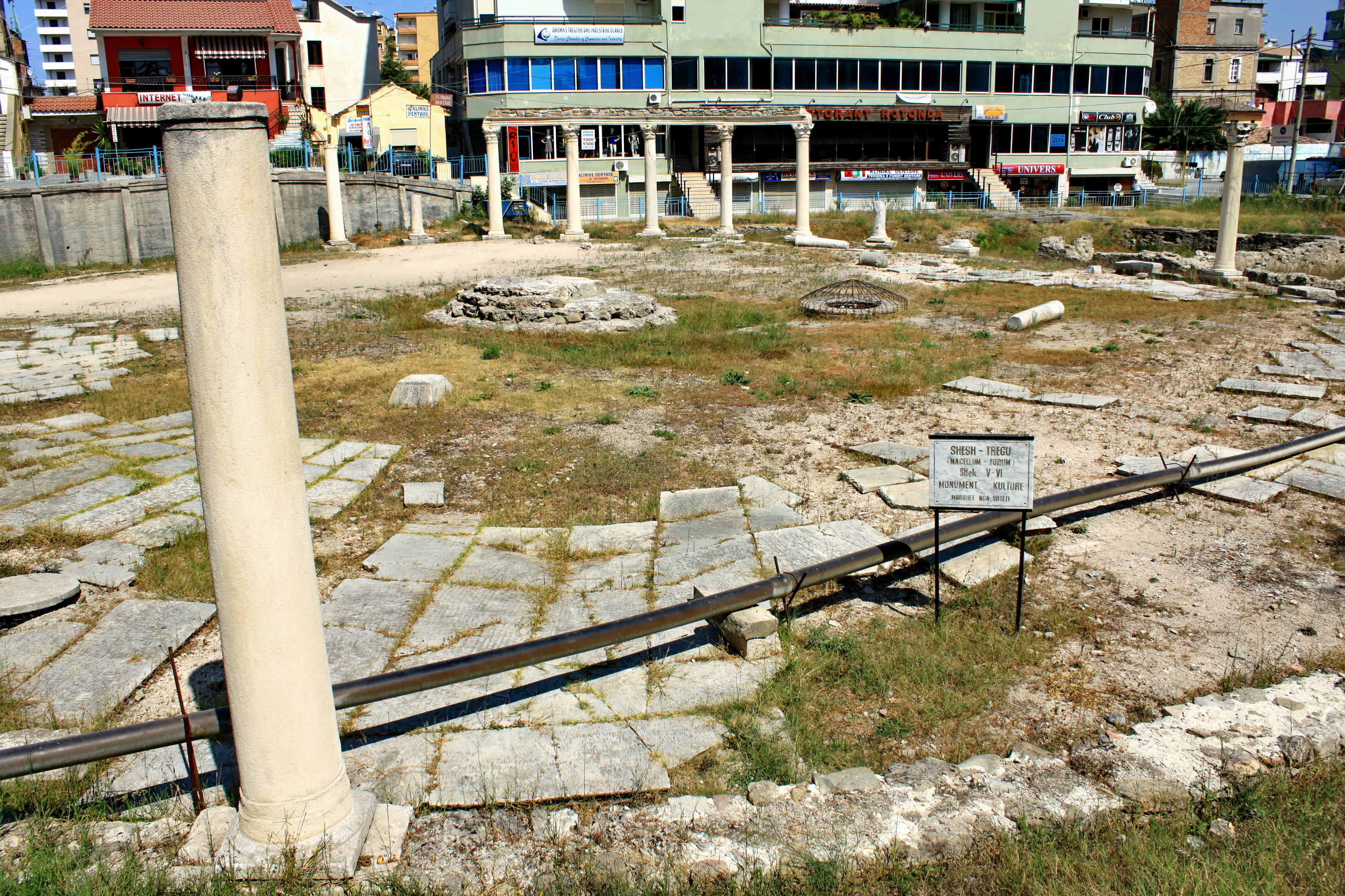 Ancient Roman Forum in Durrës